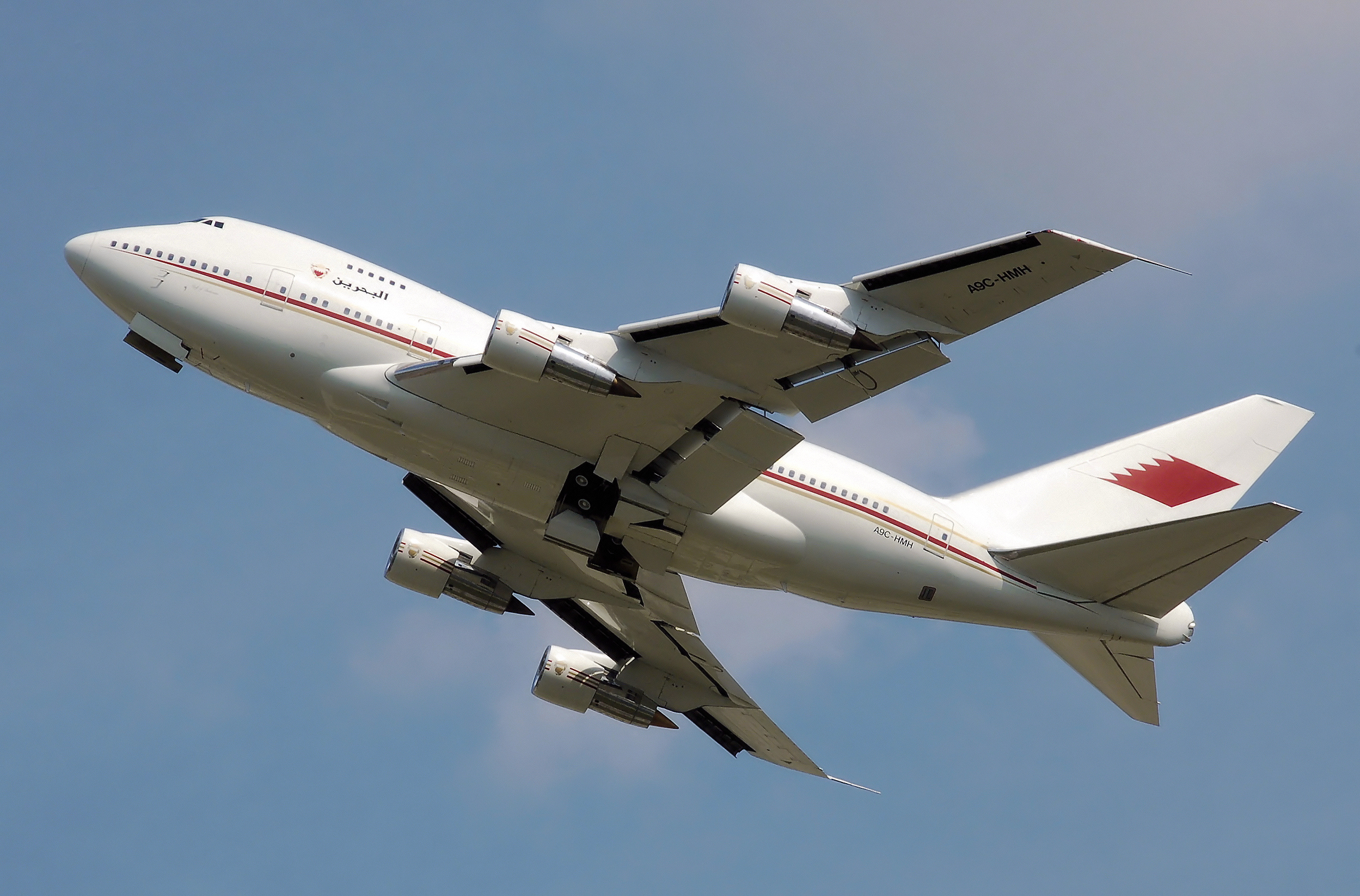 Bahrain Royal Flight Boeing 747SP-21 (A9C-HMH) taking off from London Heathrow Airport. The undercarriages are retracting. Photographed by Adrian Pingstone in August 2007 and placed in the public domain.